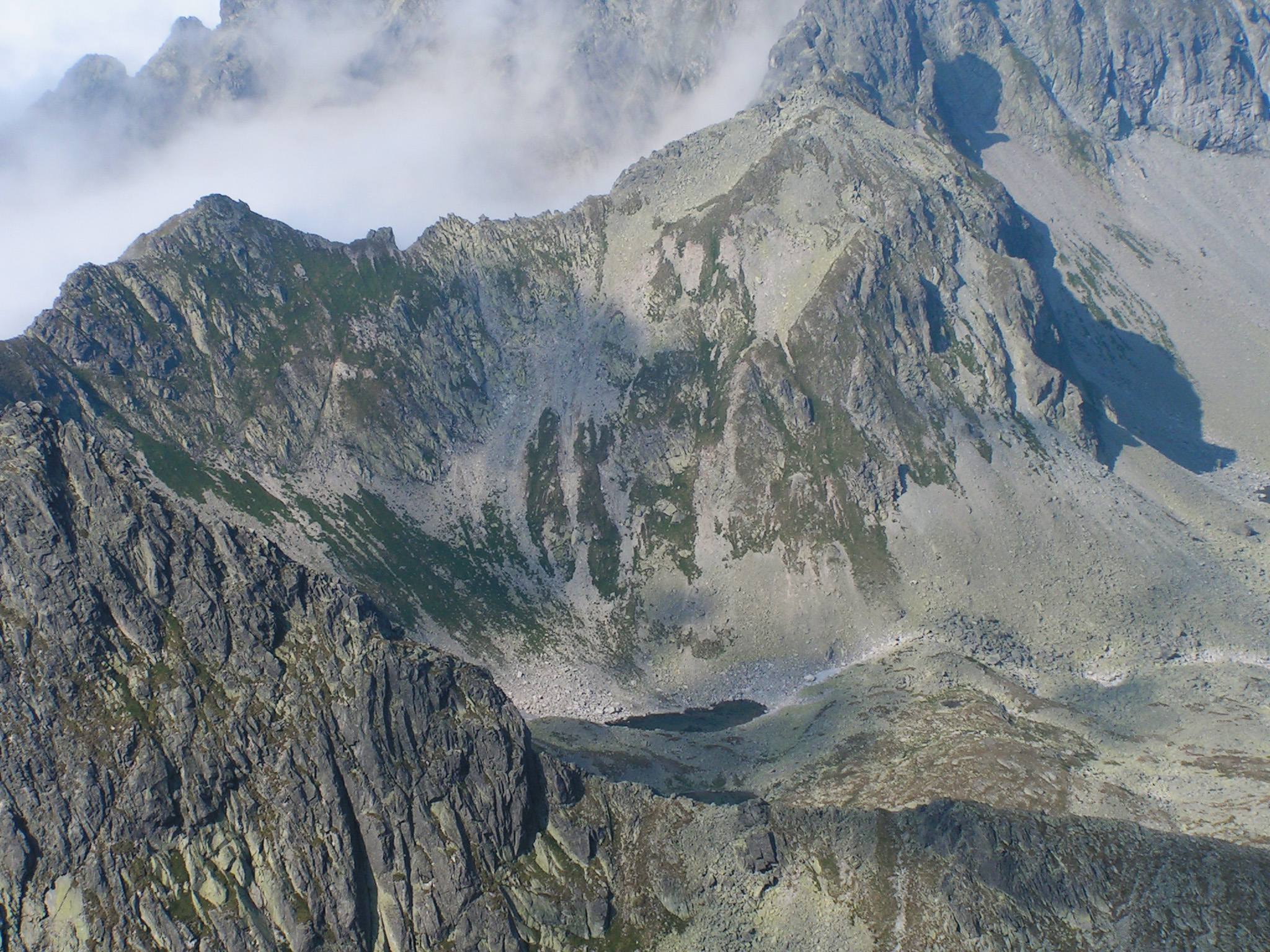 Malé Pusté pliesko, above it Rovienková stena (left) and Hranatá veža (right). View from Východná Vysoká.